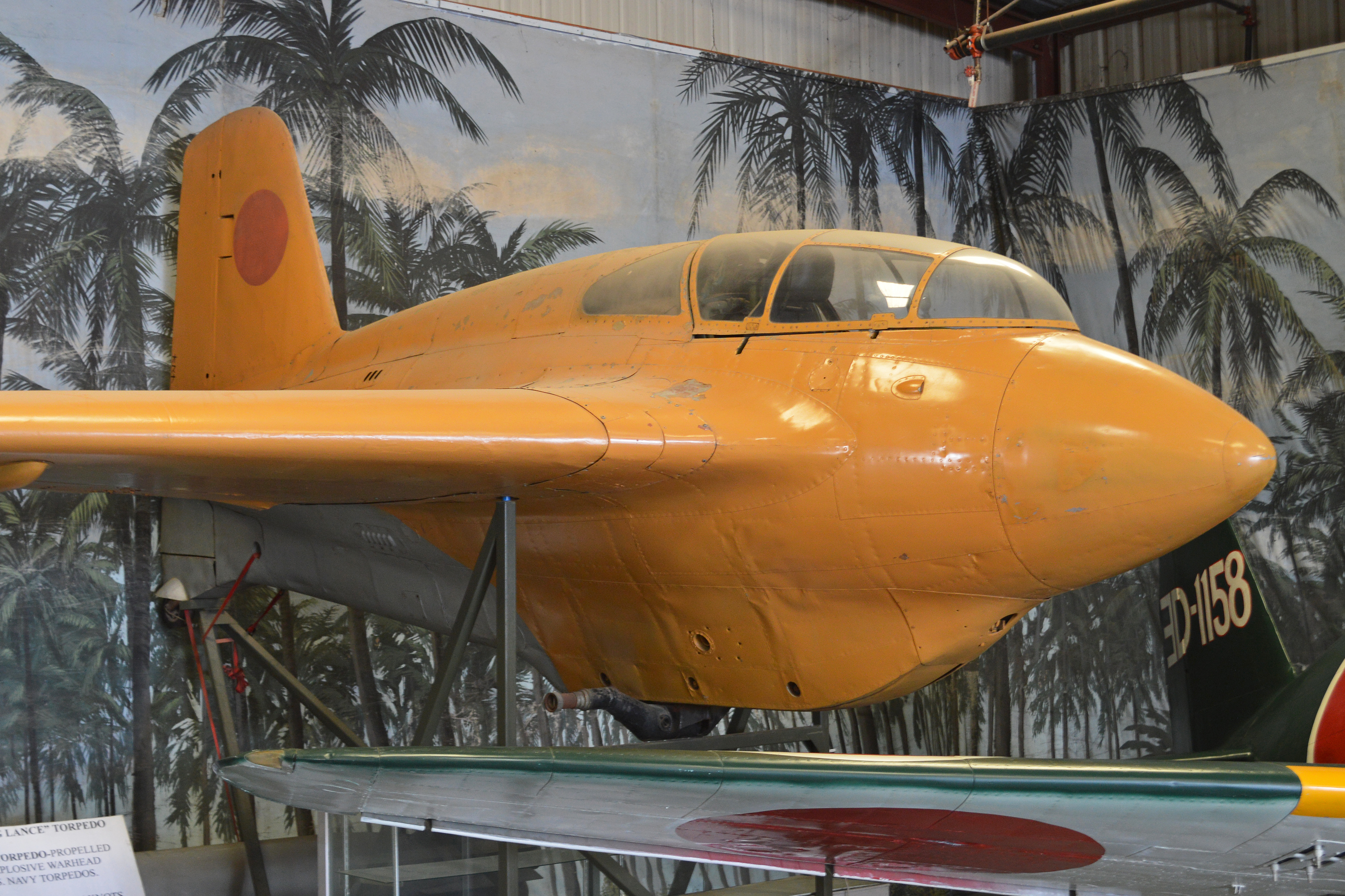 c/n 403. Essentially a copy of the German Me-163, the J8M would have been the Ki-200 in Army service, had it got that far. I believe the name ‘Shusui’ translates poetically as ‘Sharp Sword’. This example is one of two survivors and was captured at the Mitsubishi factory in Nagoya, Japan in 1945. Shipped to the US in November that year for testing. Allocated US military test serial FE-300 / TE-300. This seems to have been one of the earliest of Ed Maloney’s acquisitions, reportedly joining his collection as early as 1948. Still with his collection now, it remains on display in the ‘Foreign’ hangar at the Planes of Fame Museum, Chino, California, USA. 28-2-2016